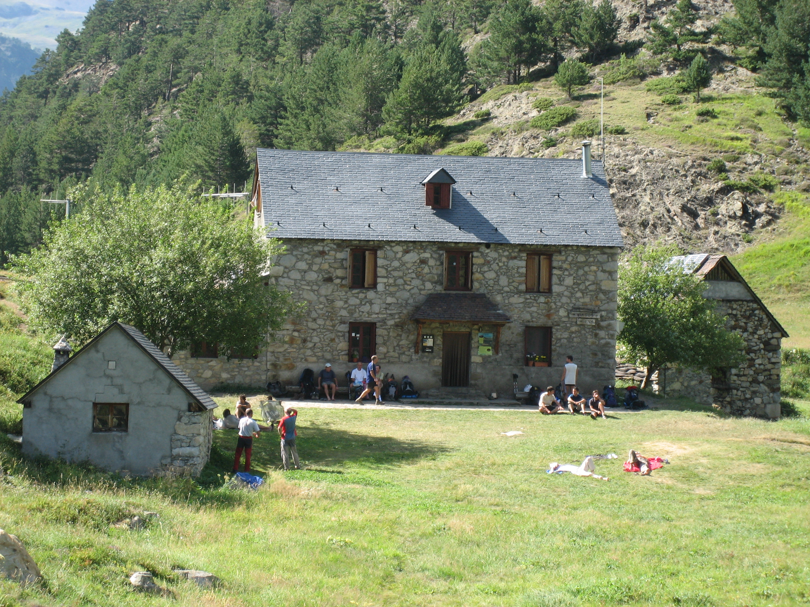 Viados, a mountain hut From Pirineos (Spain)